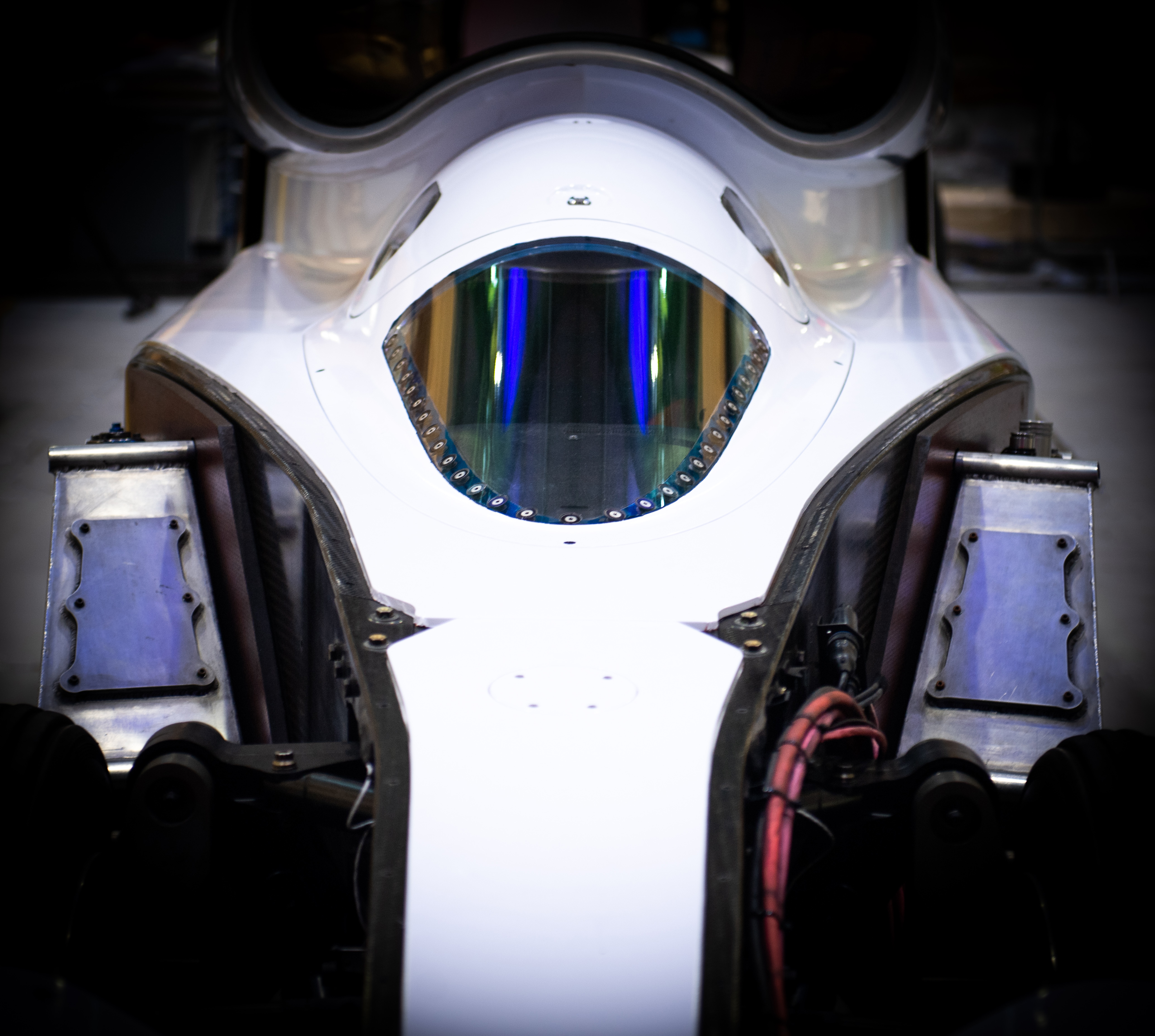 The Bloodhound LSR at launch